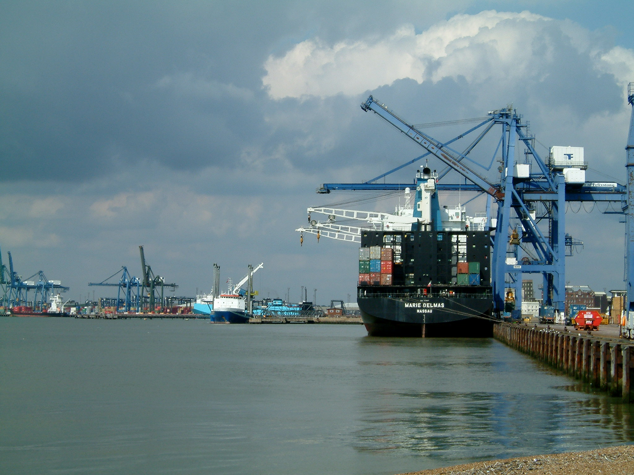 The Marie Delmas in the port of Felixstowe, England IMO Number: 9220847 MMSI Number: 212889000 Callsign: C4ZY2 Length: 195 m Beam: 30 m